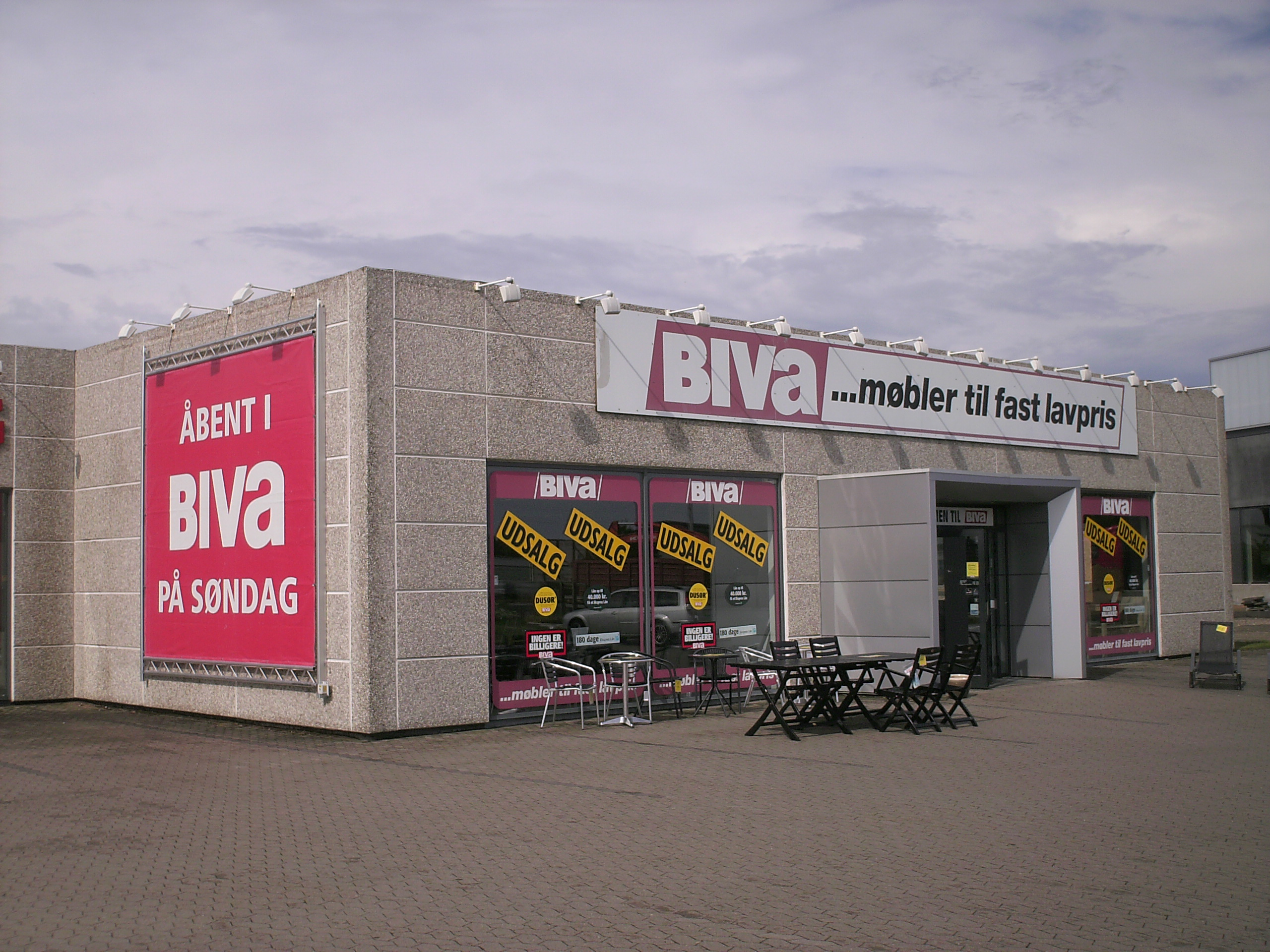 A Biva shop